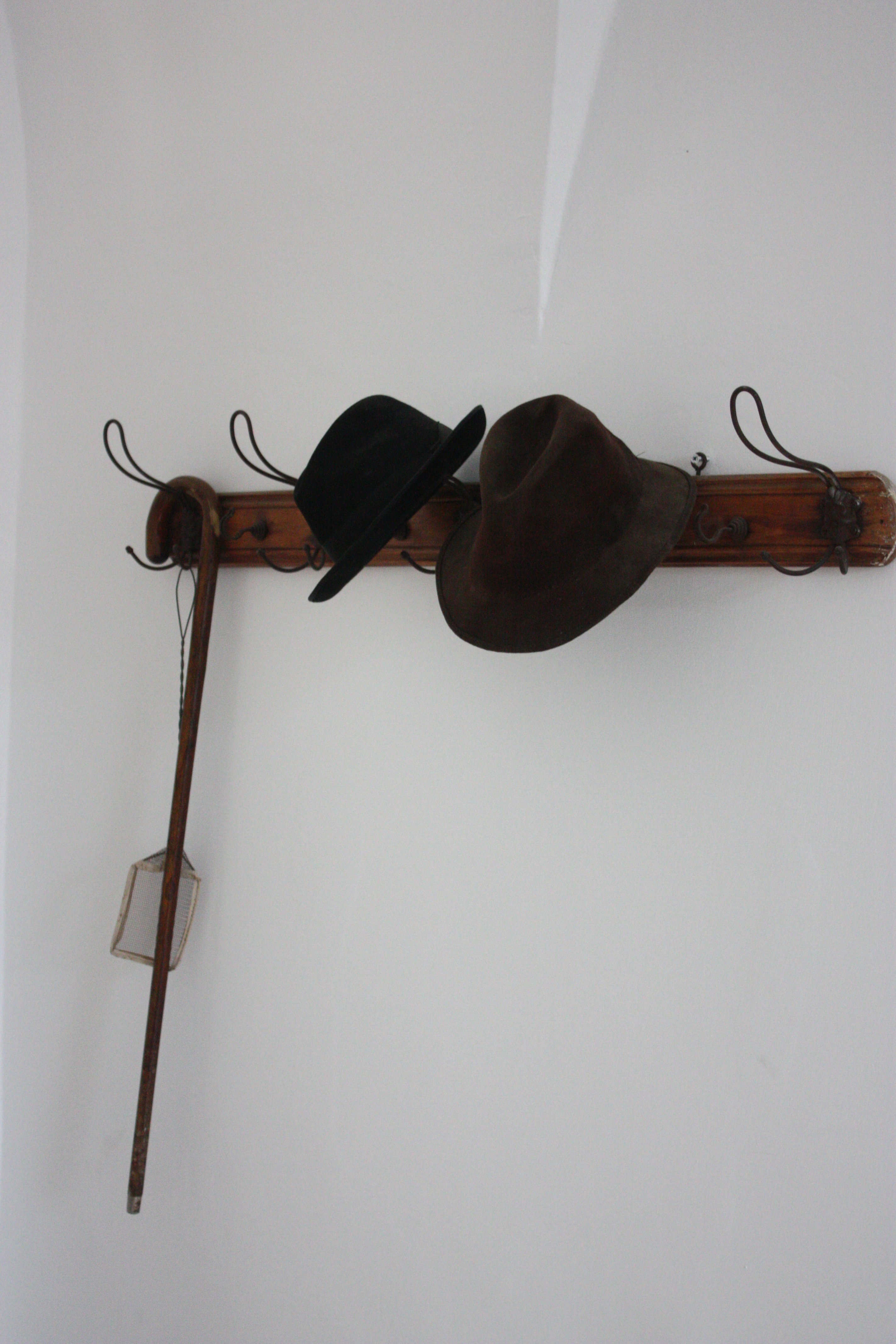 Jerusalem, Hansen Hospital